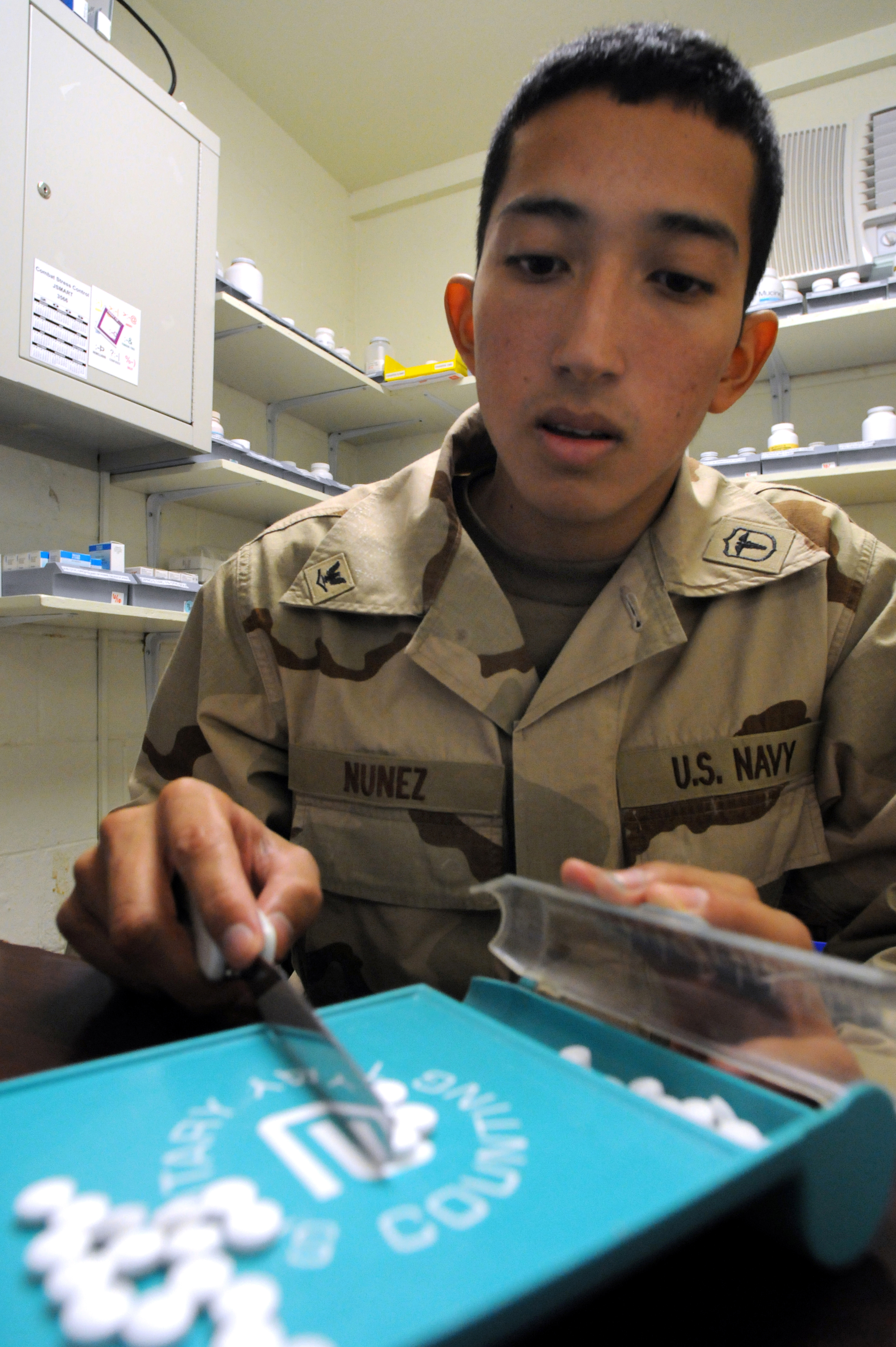 Navy Hospital Corpsman 3rd Class Esteban Nunez lde, a pharmacy technician attached to Joint Task Force Guantanamo’s Joint Troop Clinic, counts out medicine for a patient’s prescription, July 23, 2010. The JTC is a first-line aid station for JTF Guantanamo Troopers